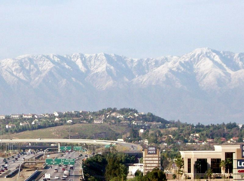 A View of Corona, California, view looking north-northwest. The Interstate 15 and California State Route 91 interchange is picture in the foreground (bottom left corner) while the San Gabriel Mountains loom in the background.